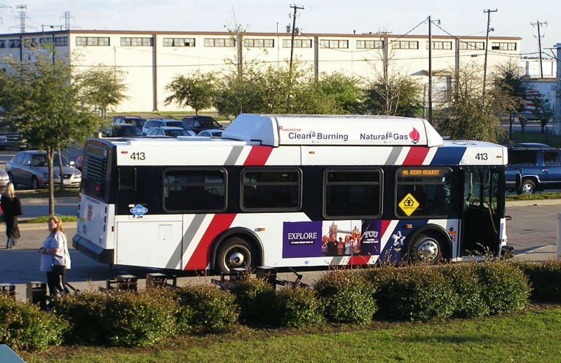 Forth Worth "The T" bus, April 2005.